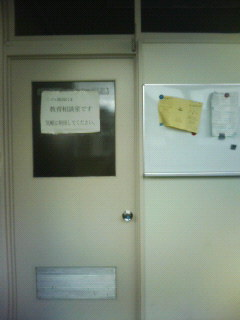 Entrance of educational clinic in Ise high school in Mie,Japan.